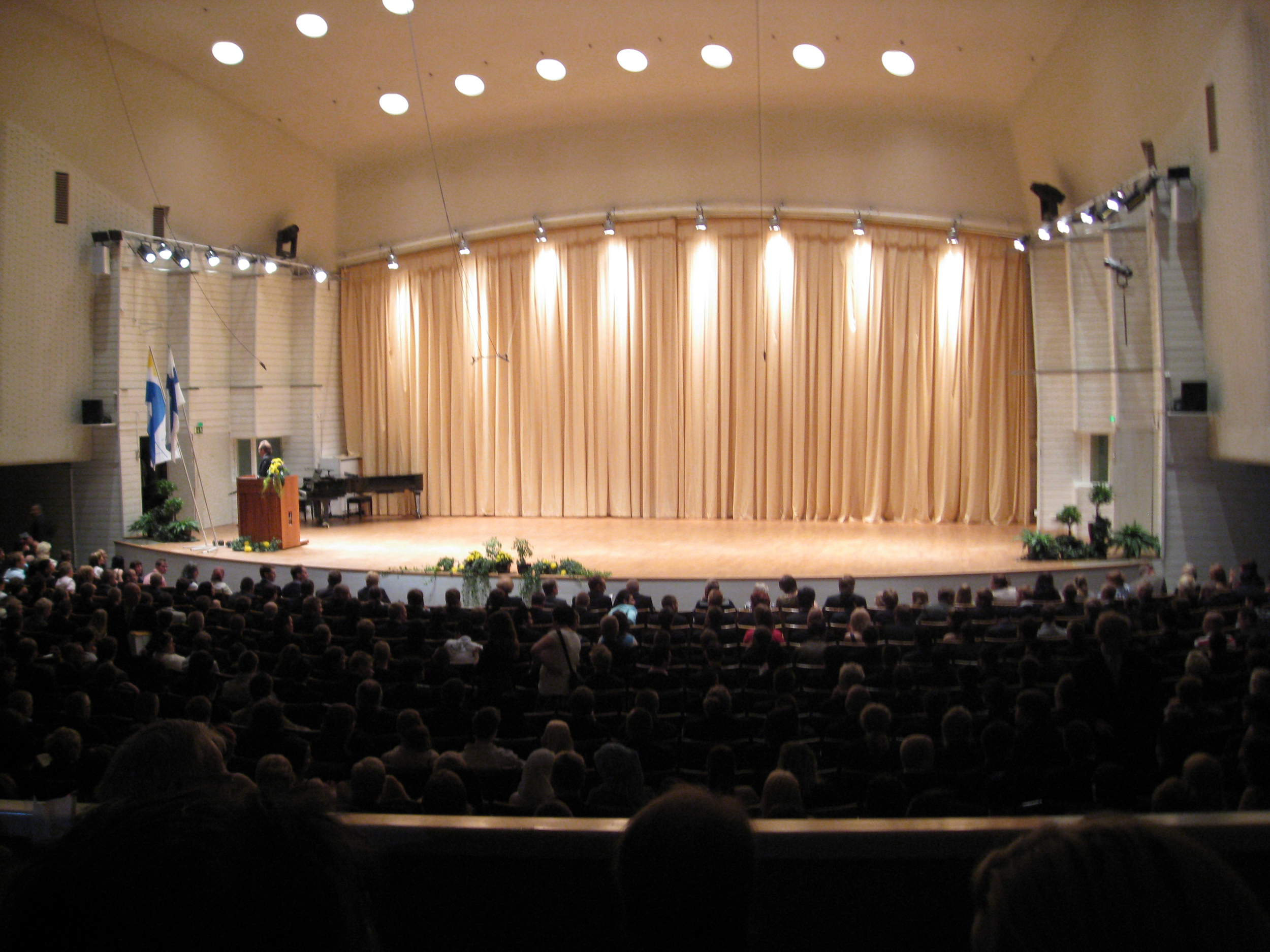 Concert hall in Turku Finland.